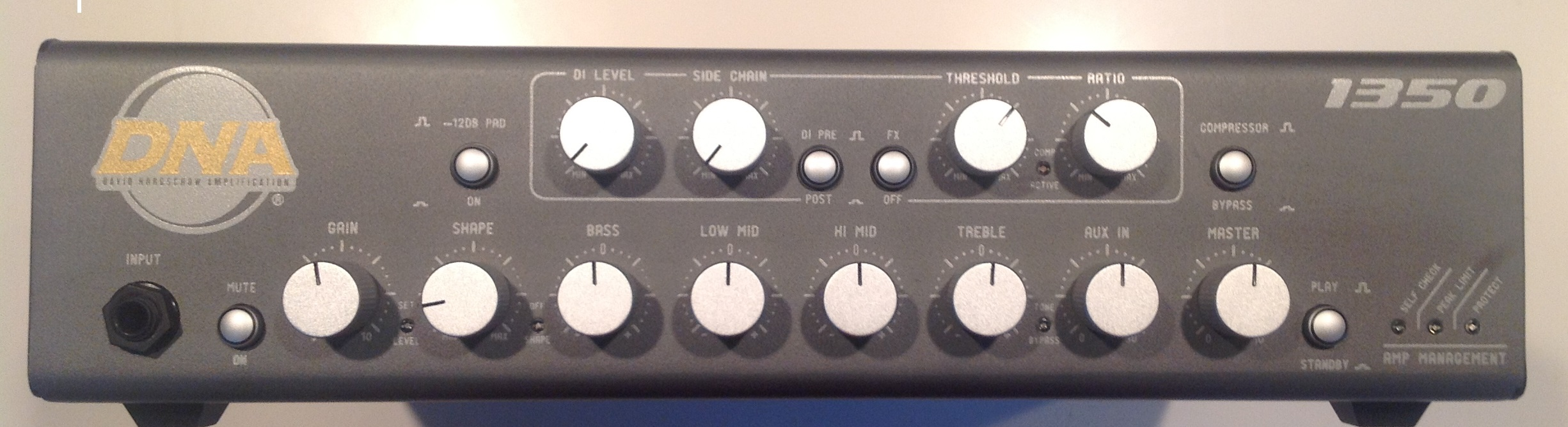 David Nordschow Amplification 1350 The new DNA 1350 high performance bass amplifier is ready to redefine the standards for Bass guitar Amplification. This unit was designed for both live and studio performances. A real power rating of 1350 watts RMS at 4 Ohm makes this one of the most powerful mono block amp in its class. The sound character, system performance, and unique feature set put it in a class by itself. It features amazing tone character and has an unsurpassed musicality. This system uses an entirely new class of patented lightweight D class amplifiers.1350-amp Contact your DNA dealer to pre-order yours now. Designed, assembled and tested in the USA. Full 3-year warranty Only 7 pounds, in a 2 space, rack mountable aluminum chassis 14 x 12 x 3.5 inches 1350 Watt RMS modular class D amplifier. The amplifier features a patented design with one cycle control loop technology, delivering a clean 1350 watts RMS of breathtaking musical quality audio sound into a 4 Ohm load. Outstanding tone quality, amazing musicality and an unequalled expressive feel is delivered with a unique subtle grow that you need to hear to appreciate Internationally operational, state of the art switching power supply automatically adjusts to local AC input voltage from (90-250VAC) Studio quality ultra low noise preamplifier and DI design.